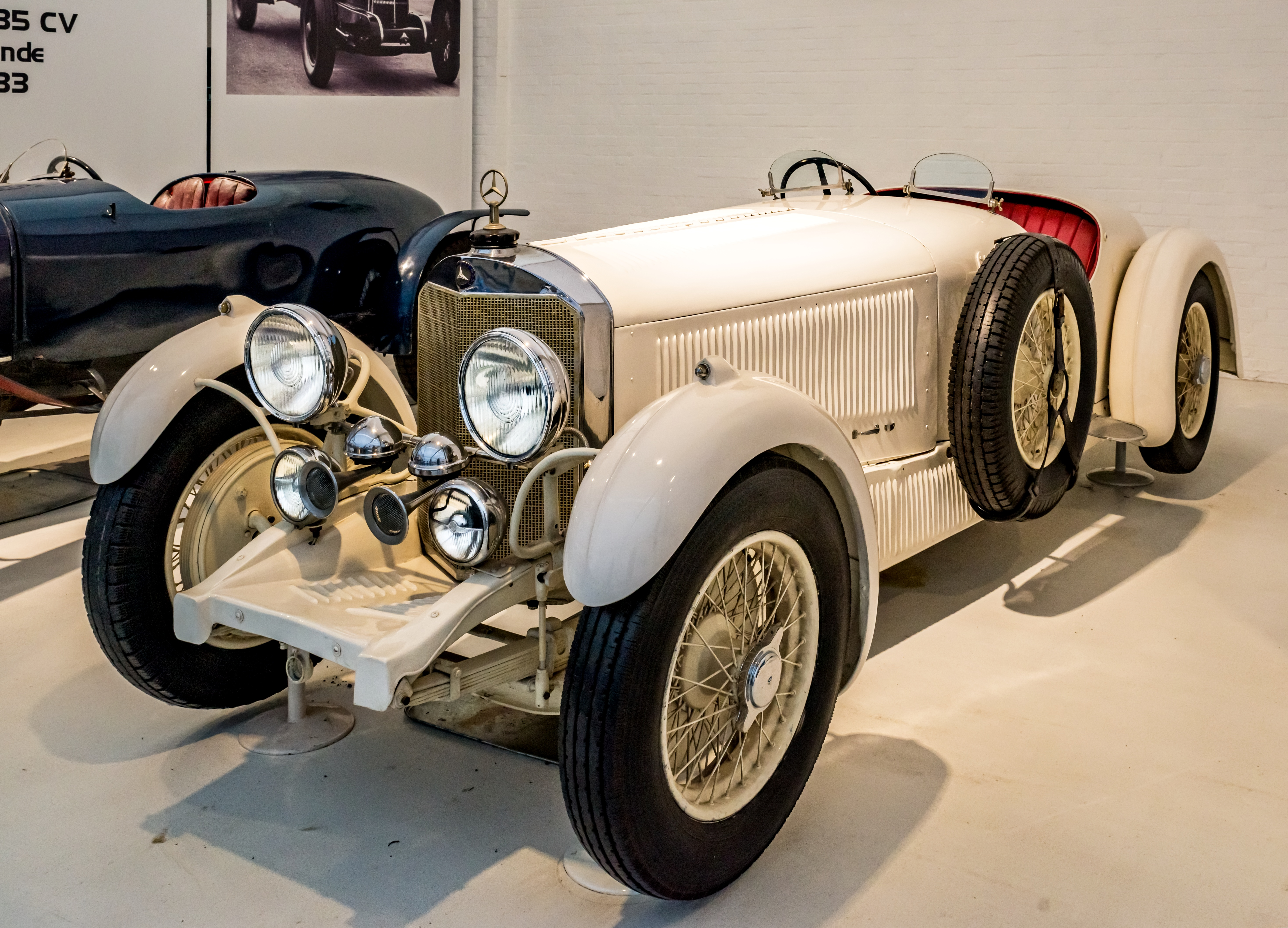 pictures from the Cité de l’Automobile – Musée National – Collection Schlump in Mulhouse, France ptictures from the 10. may 2018